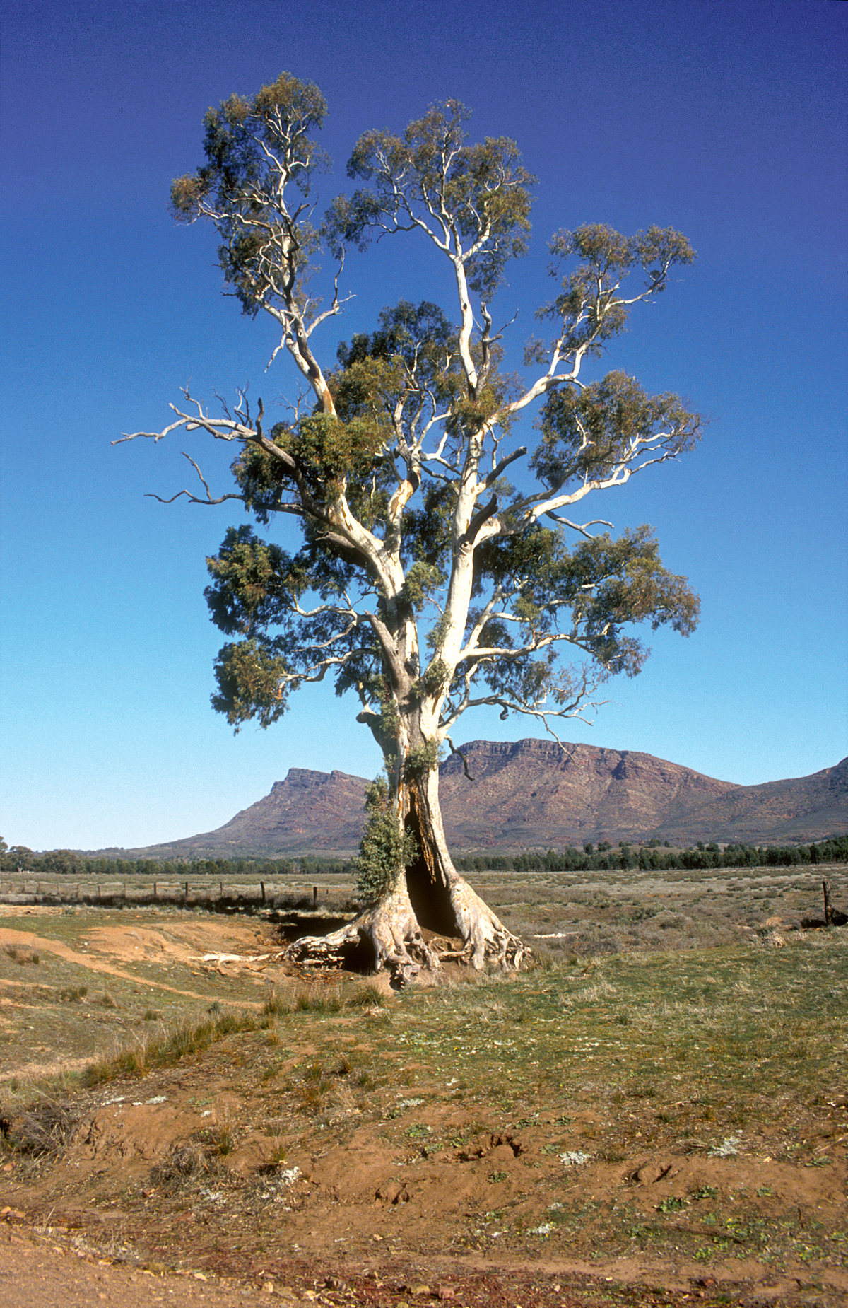 Casneaux's Tree with the ramparts of Wilpena Pound in the background. Flinders Ranges, SA. 1992.